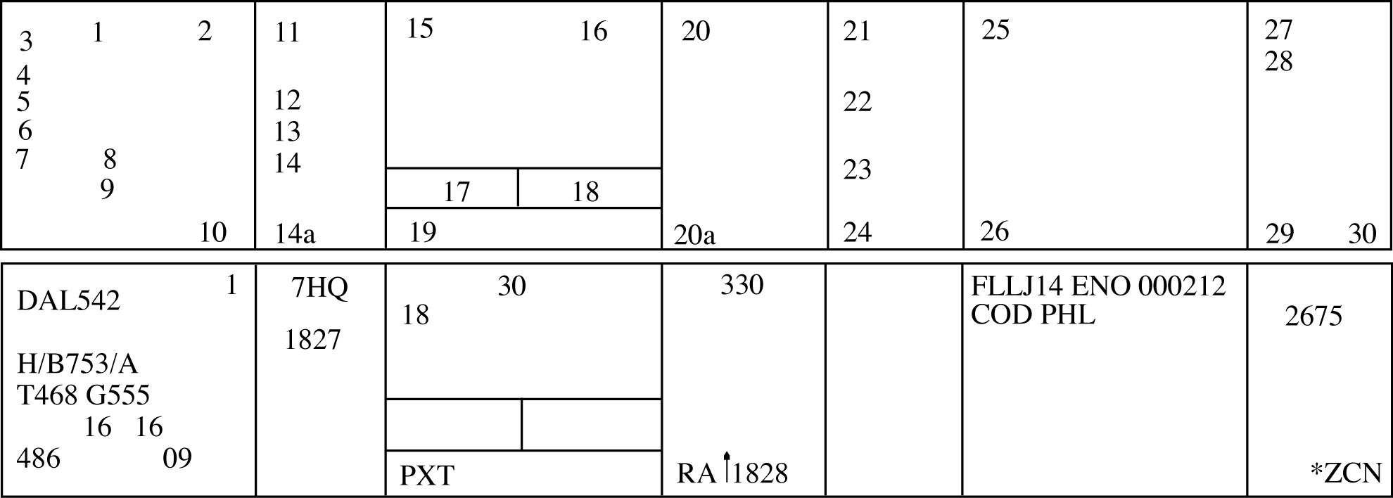 Example of a domestic en-route flight progress strip, as shown in